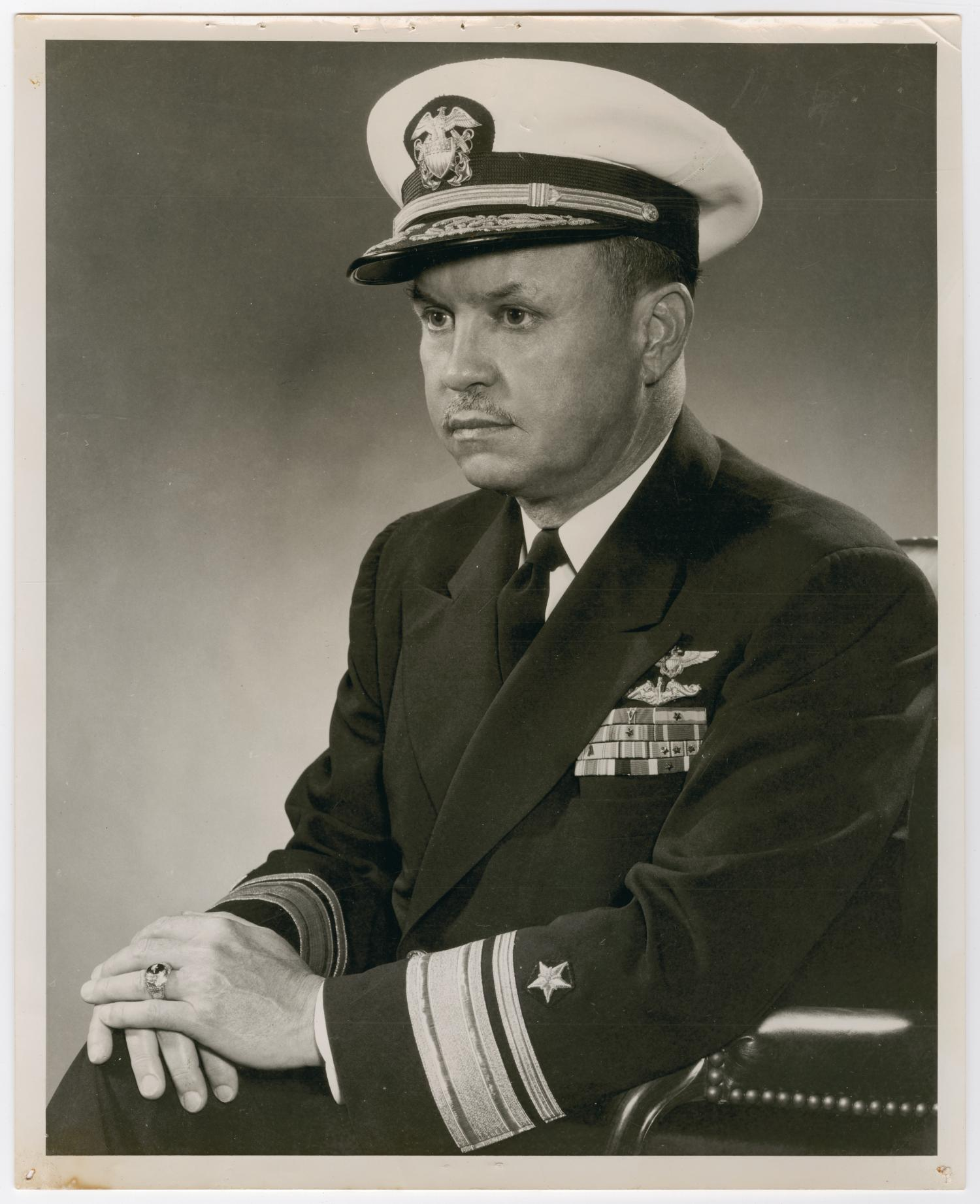 Official portrait of Rear admiral Hugh H. Goodwin, USN